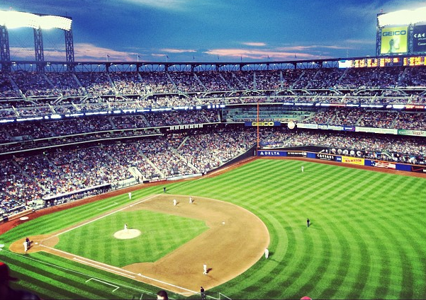 A Mets game at Citi Field on July 3rd, 2012. The Mets won the game 11-1 in front of a capacity crowd of 42,516.